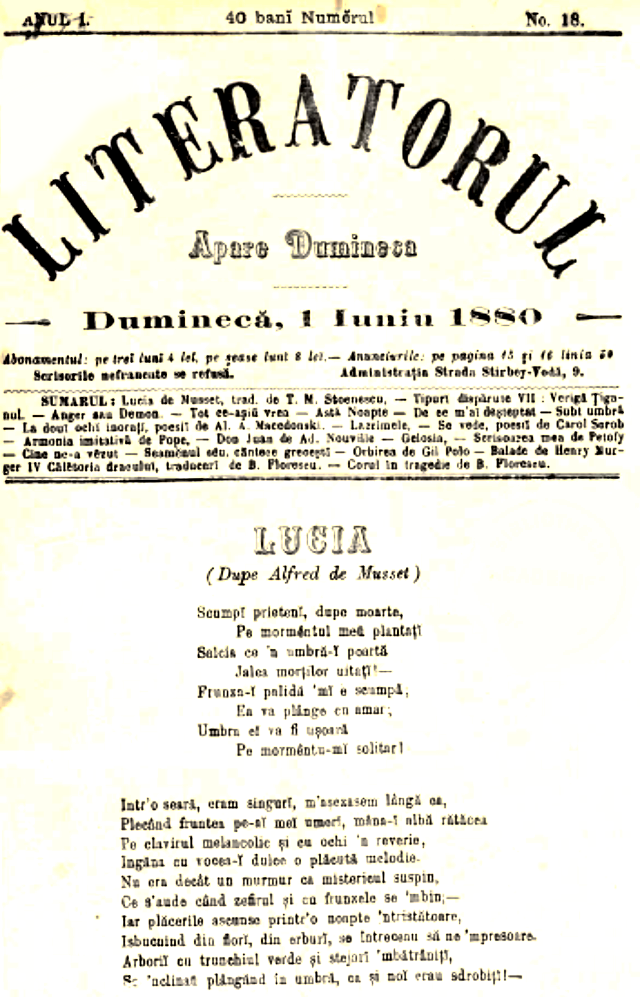 Front page of Literatorul, the Romanian neoclassical/Symbolist magazine, June 1 (13), 1880. Features a translation from Alfred de Musset by Th. M. Stoenescu (1860–1919).